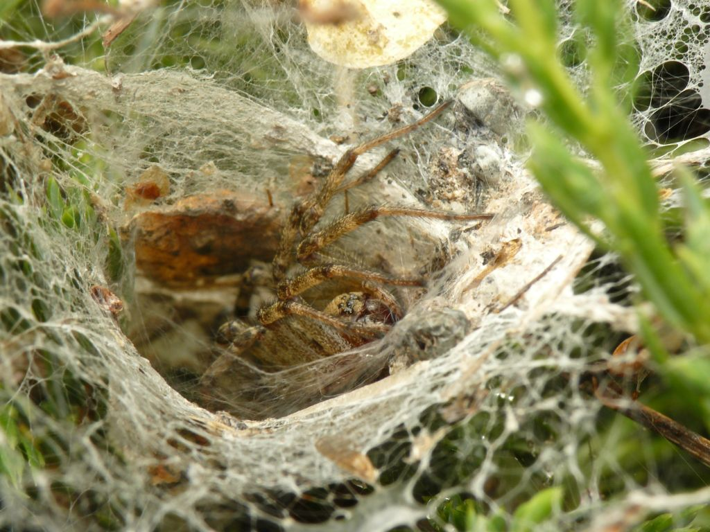 Spider webs